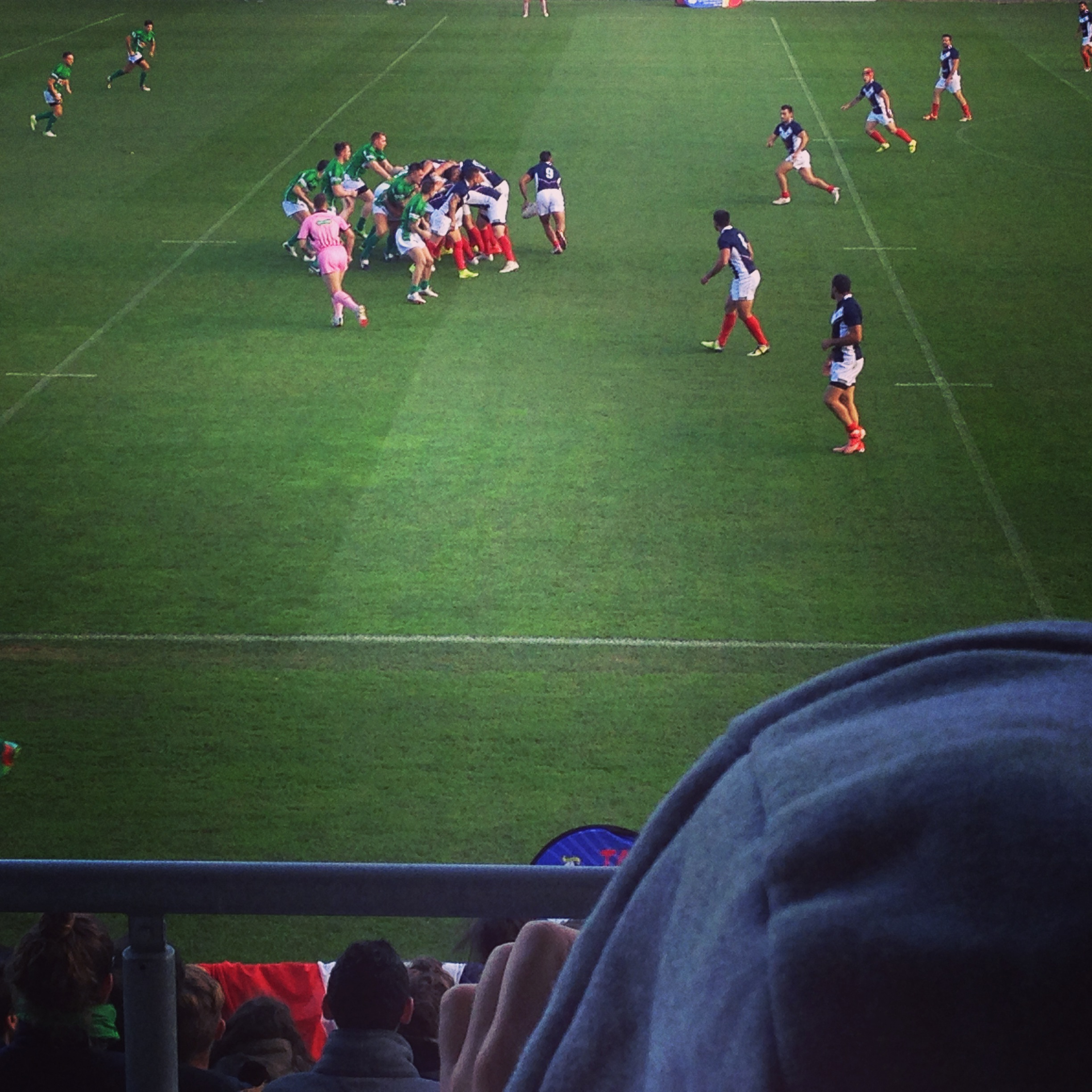 Tallaght Stadium Rugby League Ireland vs France